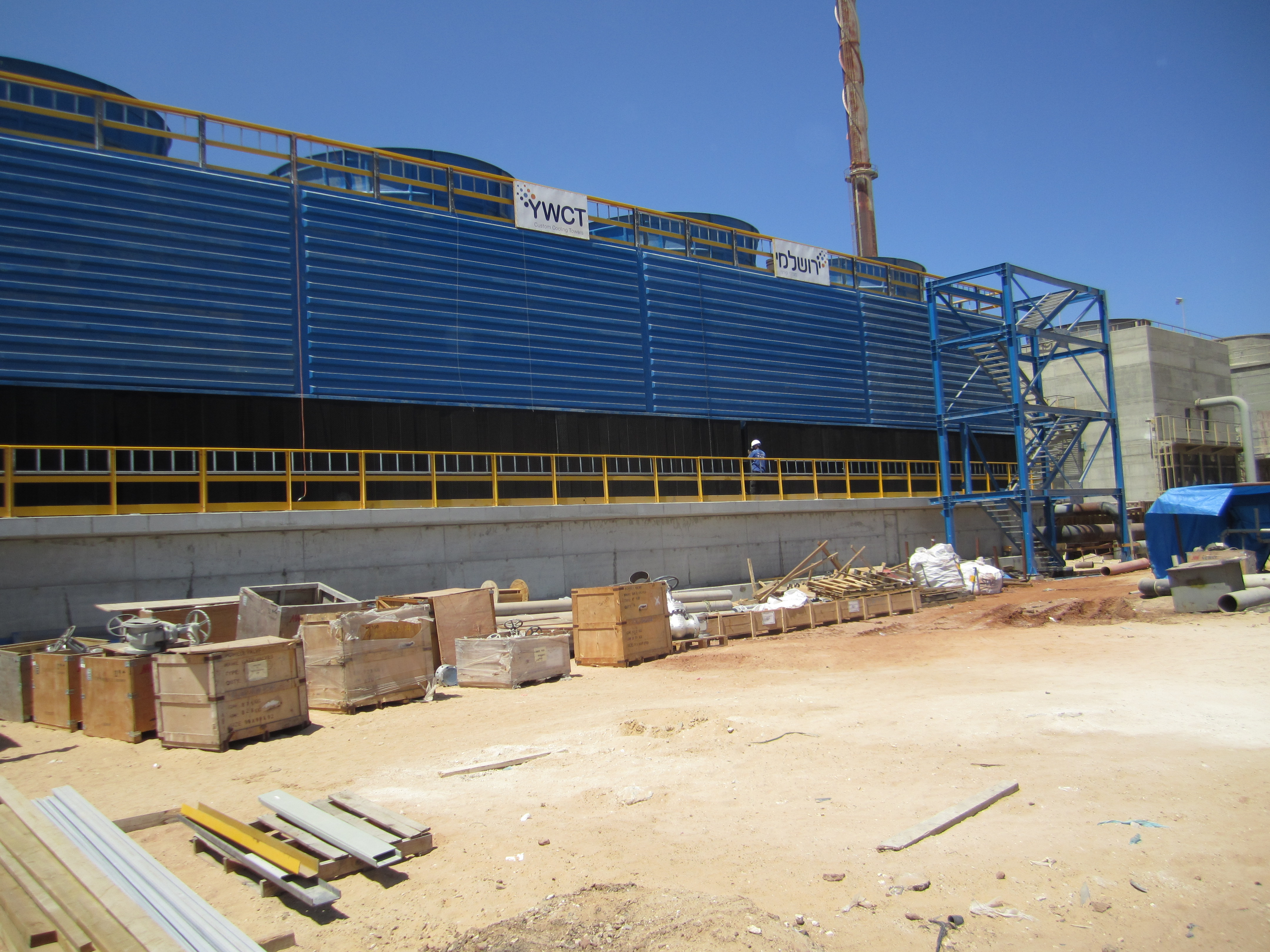 YWCT Field erected cooling tower